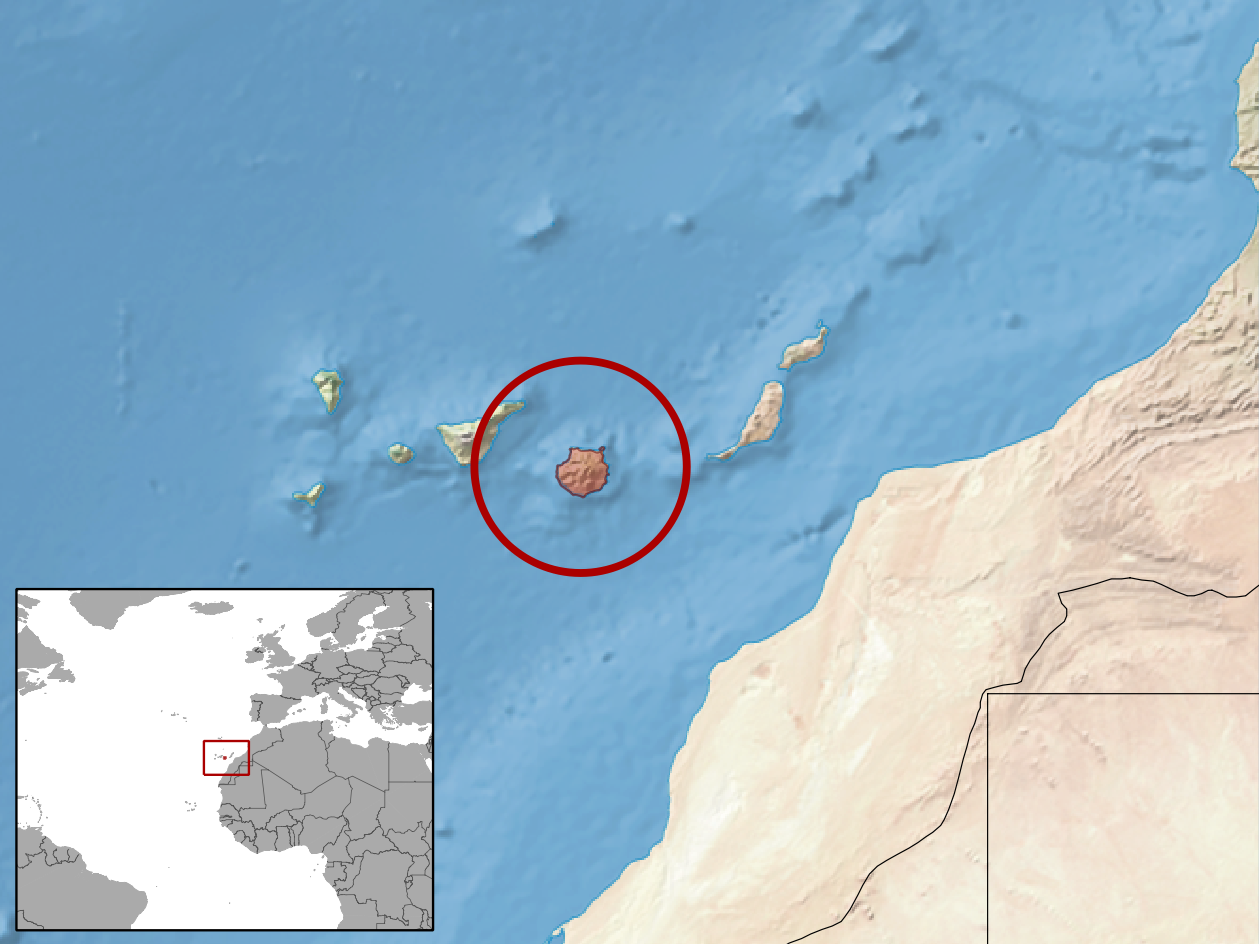 geographic distribution of Chalcides sexlineatus